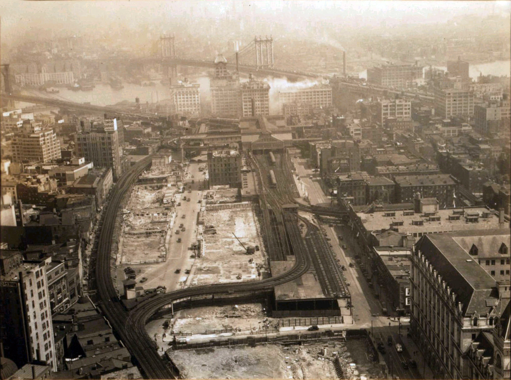 View of railroad approaches to the Brooklyn Bridge, New York City. Looking north. On the left, under the elevated tracks leading down to the Ferry under the bridge, is Fulton Street with Court Street ending on its left. In the right is Washington Street, later renamed Cadman Plaza East, running past the Post Office in the lower right corner. Beyond the Post Office, the unwidened Tillary Street runs east / west. Between them, to the left (west) of Washington, the large trolley station shown has been replaced by Cadman Plaza. Photo taken after the area was cleared for widening the roadway approach to the Brooklyn Bridge.